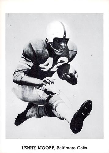 A promotional image of Baltimore Colts player Lenny Moore.